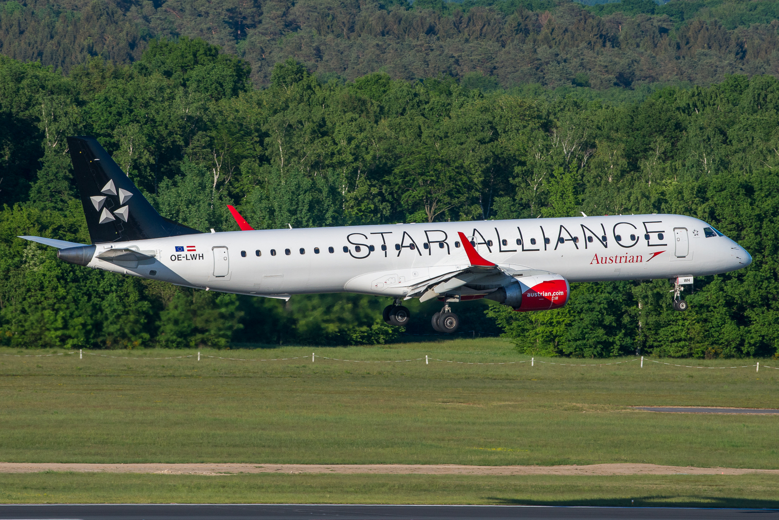 Arriving CGN. Star Alliance livery.